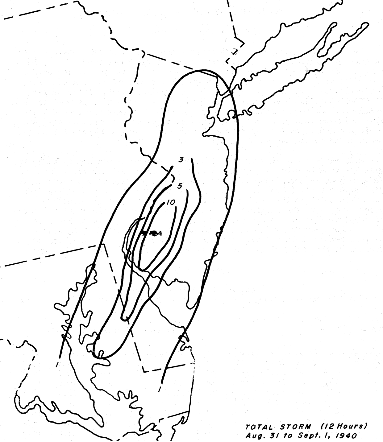 Rainfall totals of the 1940 New England hurricane in the United States.